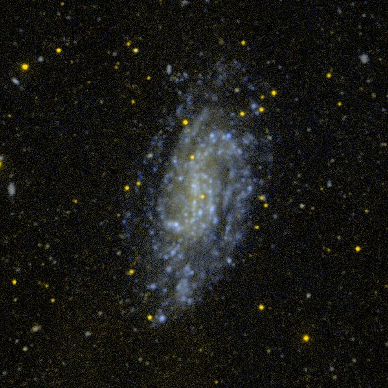 NGC 1744 galaxy by GALEX